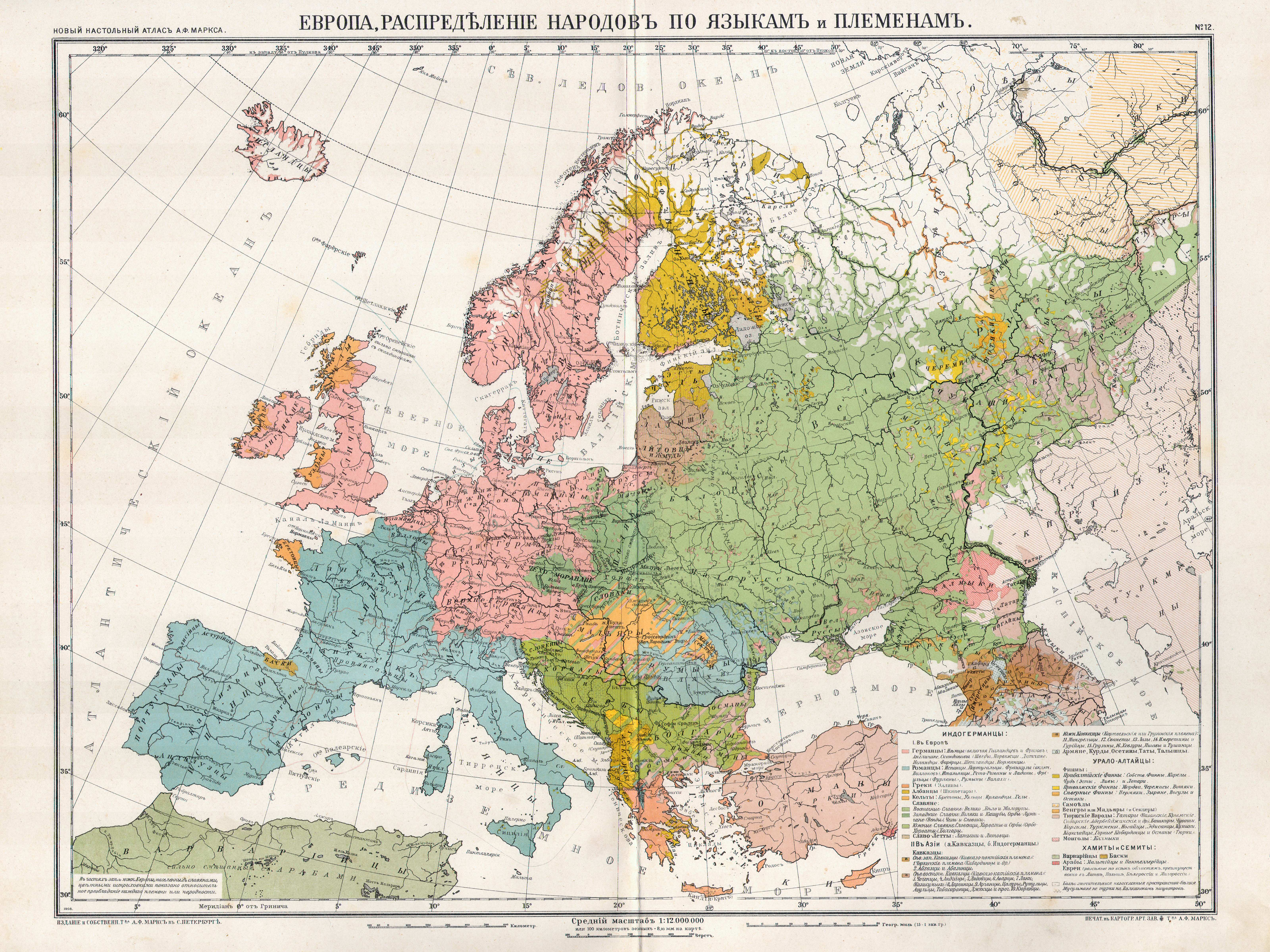 Europe, distribution of population after languages and races